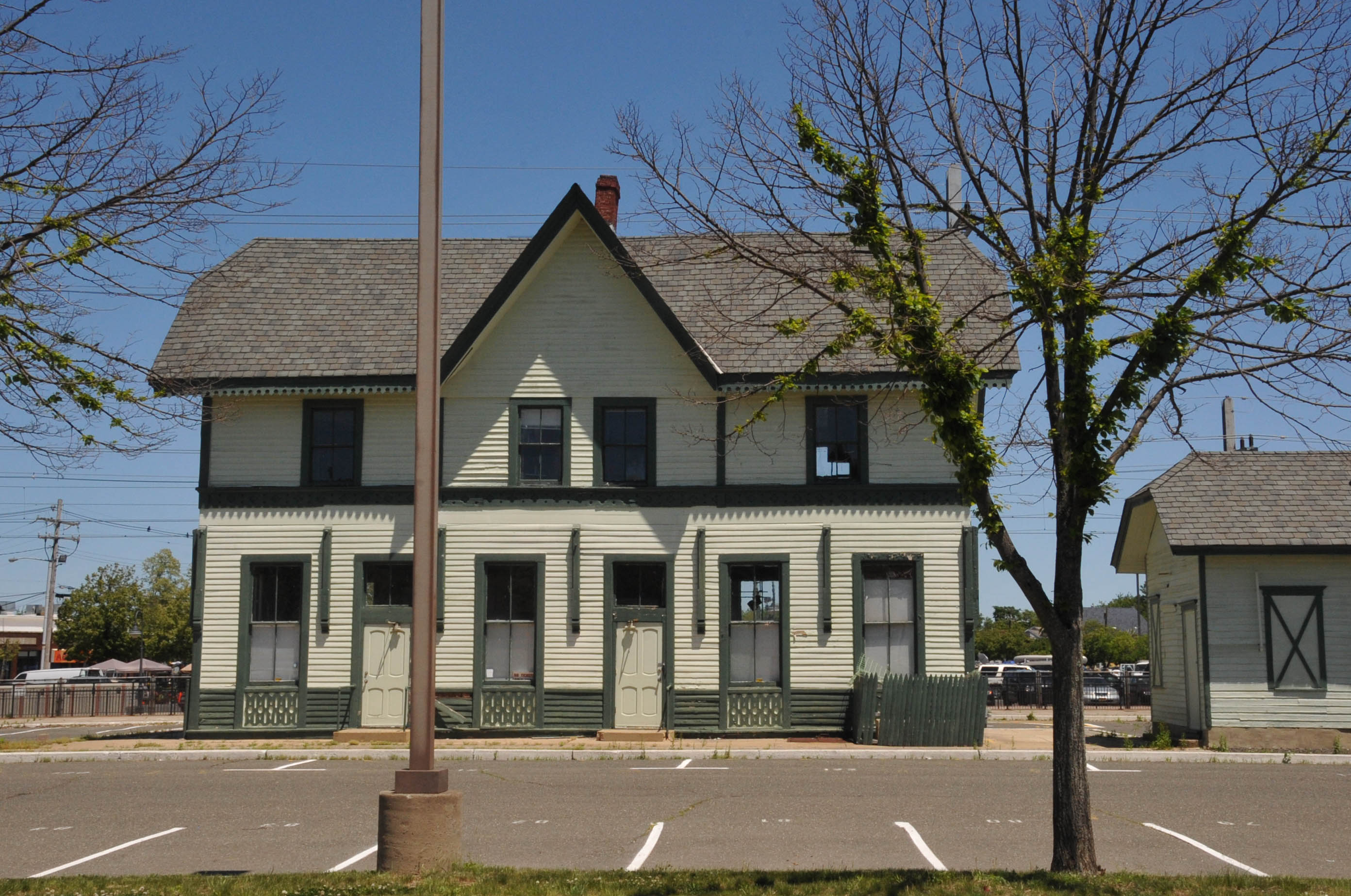 VICTORIAN EASTLAKE STYLE; BUILT FOR THE NEW JERSEY CENTRAL RAILROAD IN 1875